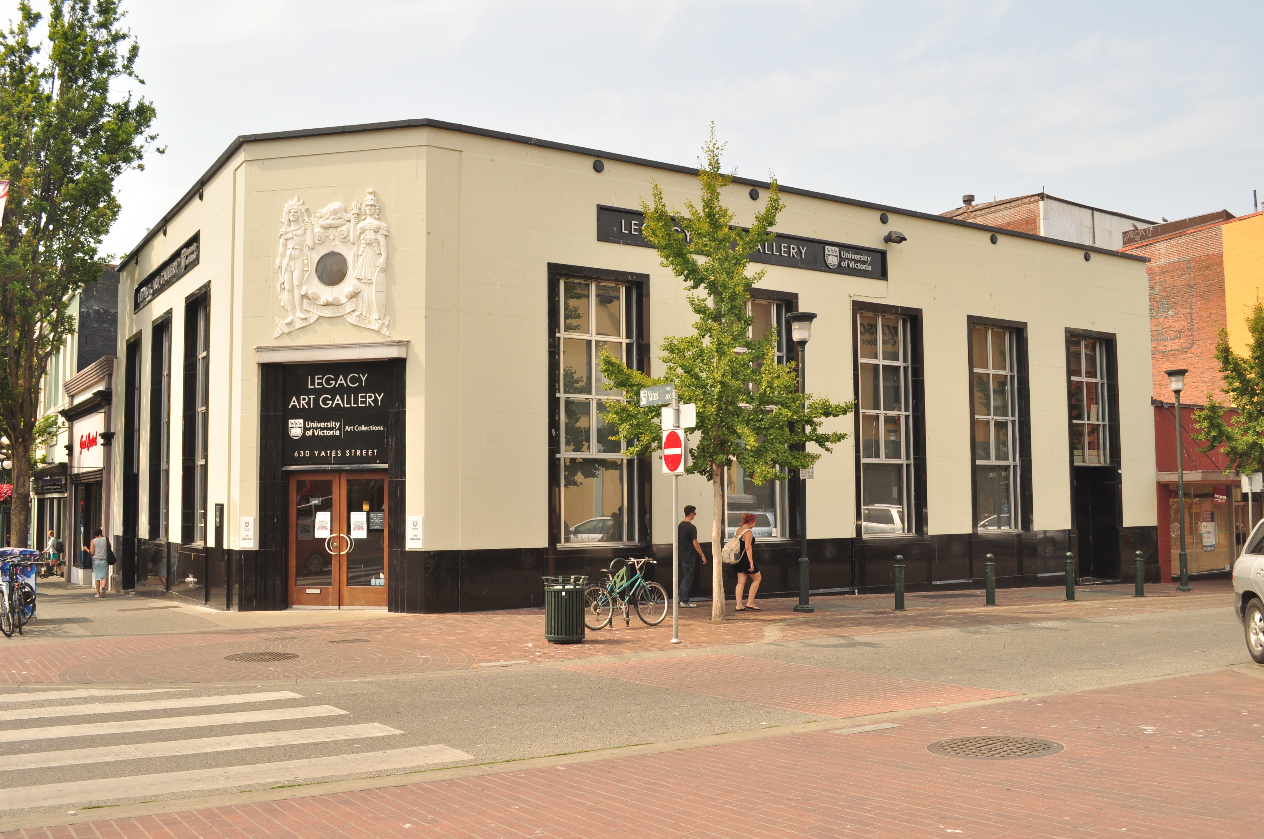 Bank of Toronto Building, now Legacy Art Gallery Downtown (University of Victoria), 630 Yates Street, Victoria, British Columbia.